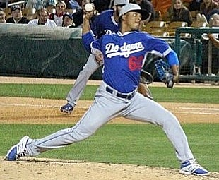 José Domínguez pitching for the Dodgers in spring training